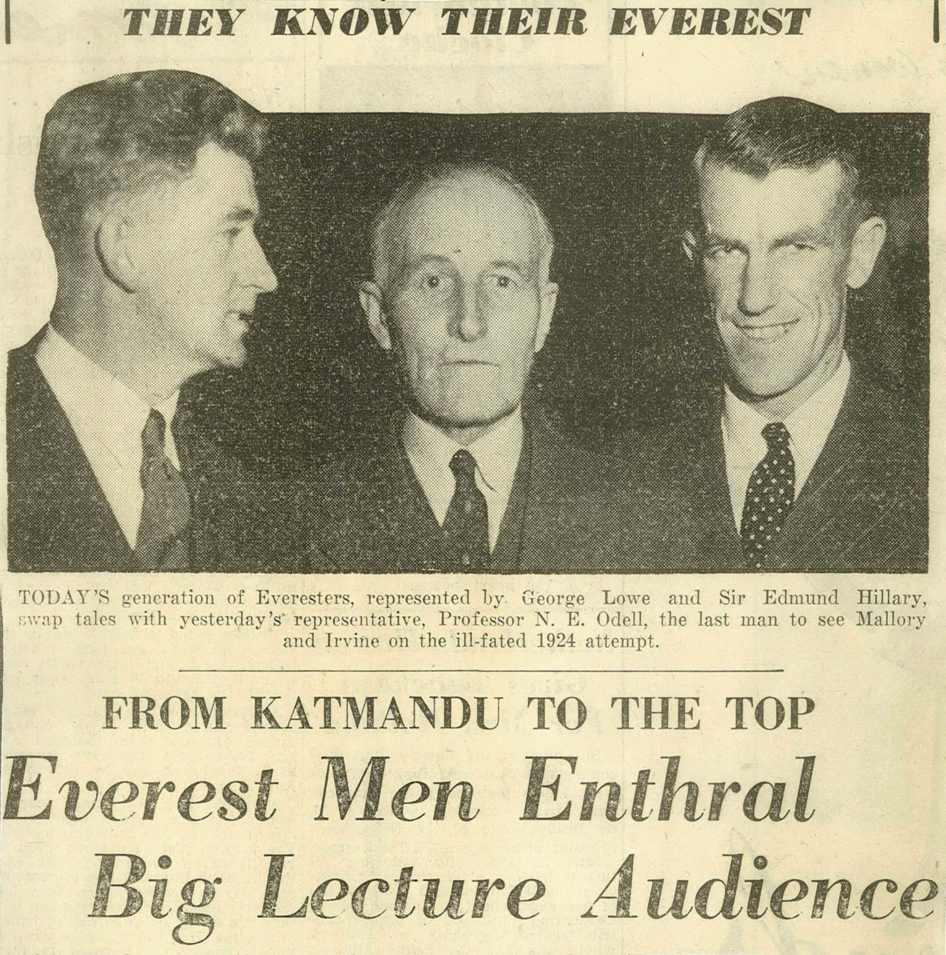 On 11 January 2008 Sir Edmund Hillary died at the age of 88, generating an international outpouring of tributes to the famous mountaineer and explorer. Hillary has often been referred to as one of the 'most famous' New Zealanders, following the significant achievements of his life. In 1953 he became the first person, along with Tenzing Norgay, to reach the summit of Mt Everest. New Zealander George Lowe was also a part of the 1953 British Everest Expedition party. As part of the Commonwealth Trans-Antarctic Expedition, Hilary reached the South Pole overland in 1958. Following this, he reached the North Pole, making him the first person to reach both poles and summit Everest. Hillary then devoted most of his life to helping the Sherpa people of Nepal through the Himalayan Trust, which he founded. Through his efforts, many schools and hospitals were built in Nepal. Hillary was named by Time magazine as one of the 100 most influential people of the 20th century. A state funeral was held for Hillary on 22 January 2008, at Holy Trinity Cathedral in Auckland. Some of his ashes were then scattered according to his wishes in the Hauraki Gulf, and the rest were placed in a Nepalese monastery near Everest. The image above is from an August 21st, 1953, Evening Post news clipping, contained within a file created by the department of Internal Affairs. The file details arrangements of the State Reception for Hilary and fellow mountaineer George Lowe on their return from Everest. Archival Reference: ACGO 8333 IA1 Box 2979 152/1183 For further enquiries please For updates on our On This Day series and news from Archives New Zealand, follow us on Twitter Material from Archives New Zealand